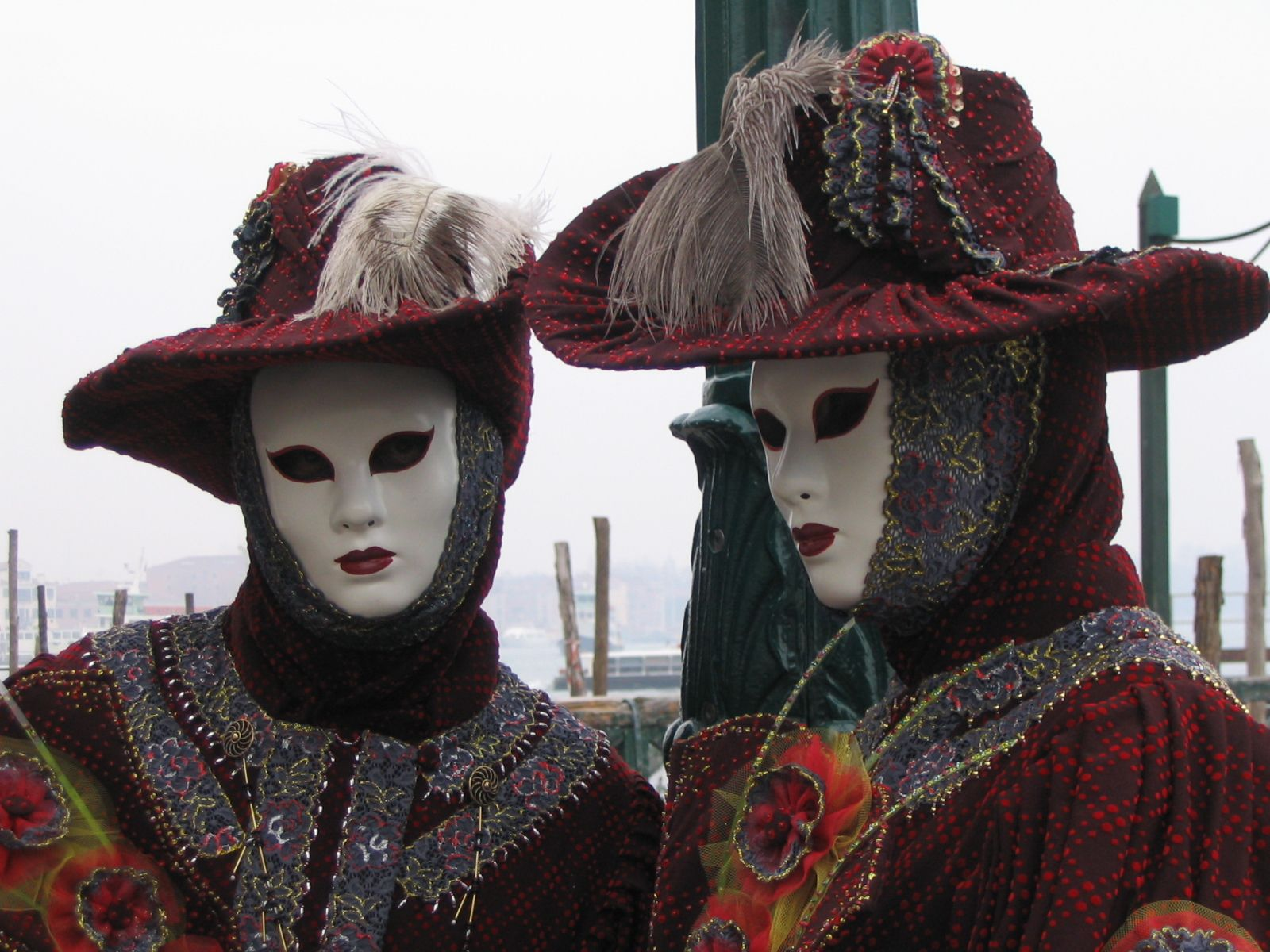 Batch Photo By wanblee =